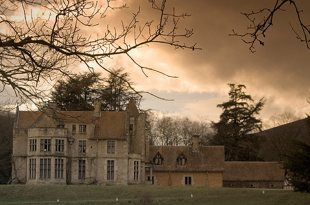 Hornillos Palace is located in the hamlet of Las Fraguas, Arenas de Iguña, Cantabria, Spain. The house was built in 1840 and was designed by the Scottish architect Ralph Selden Wornam and is an eclectic style of English neoclassical style and is one of the few examples of Victorian Architecture located in Spain. The house was used for exterior shots in the 2001 film "The Others" starring Nicole Kidman.